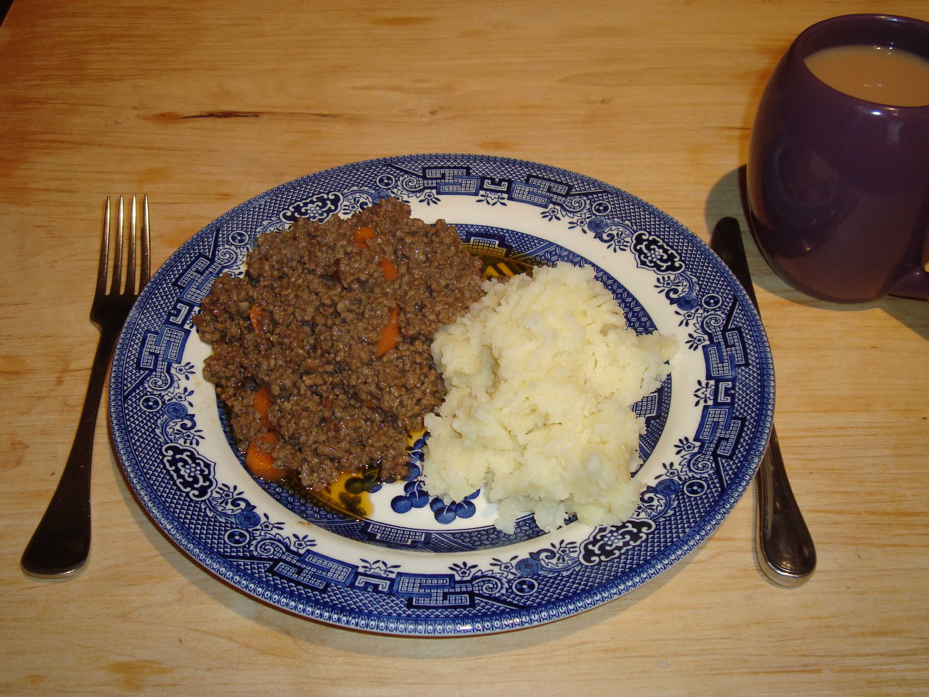 Plate of traditional Scottish dish mince an tawties(/tatties). No additions.